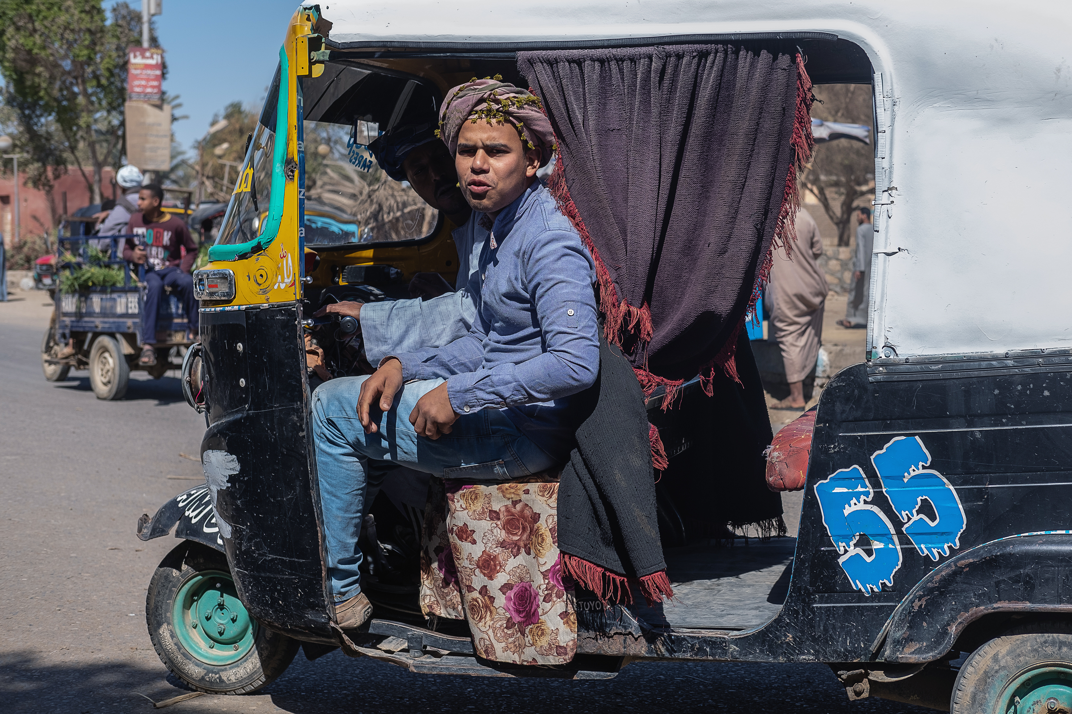 Toktok driver style in upper Egypt This is an image with the theme "Africa on the Move or Transport" from: Egypt